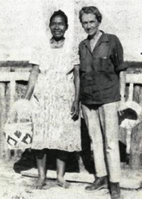 Branislava Sušnik (1920-1996), Slovene anthropologist. Sušnik (right)